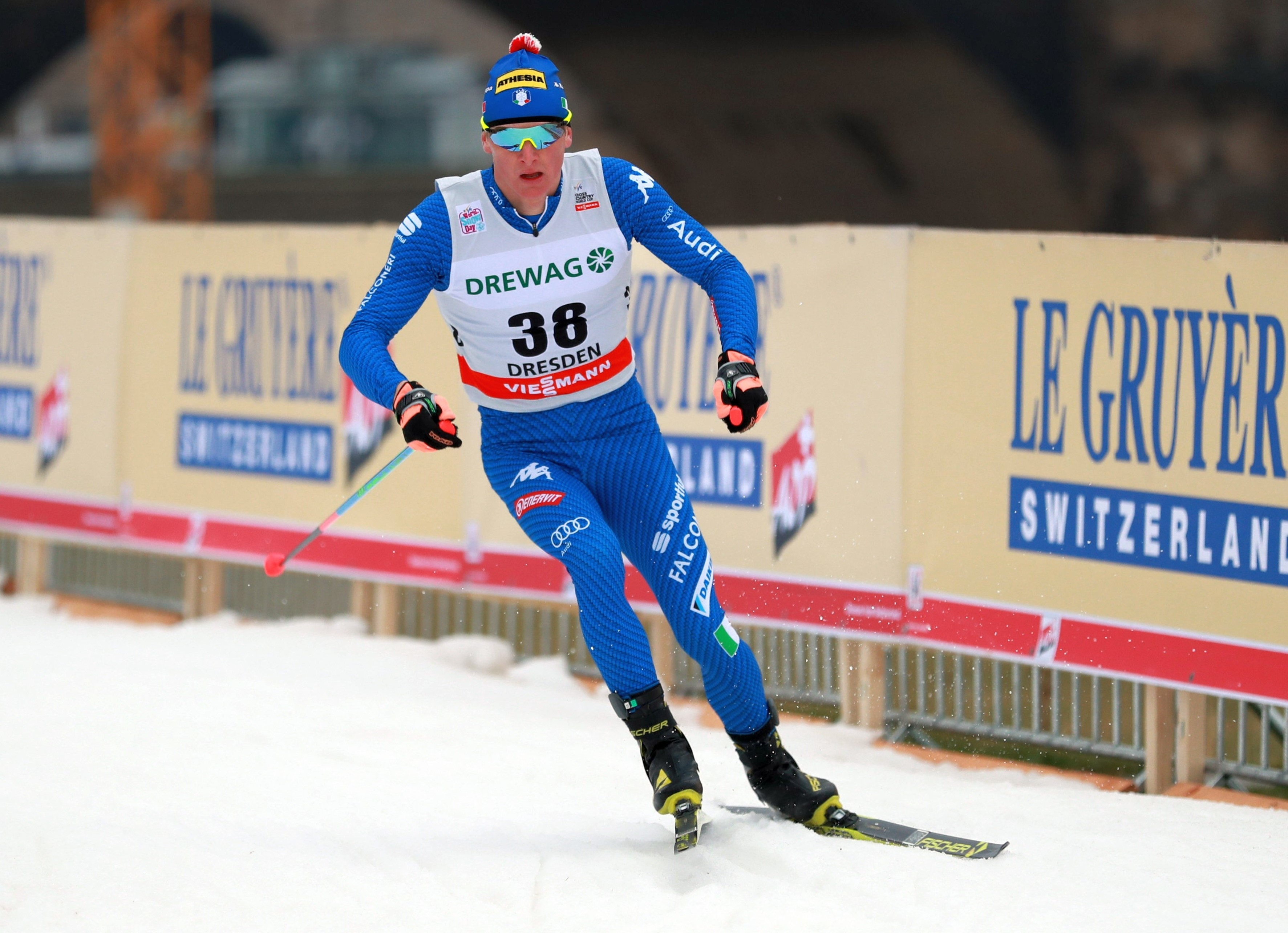 Mens Prolog at the FIS Cross-Country World Cup Dresden 2018: Stefan Zelger